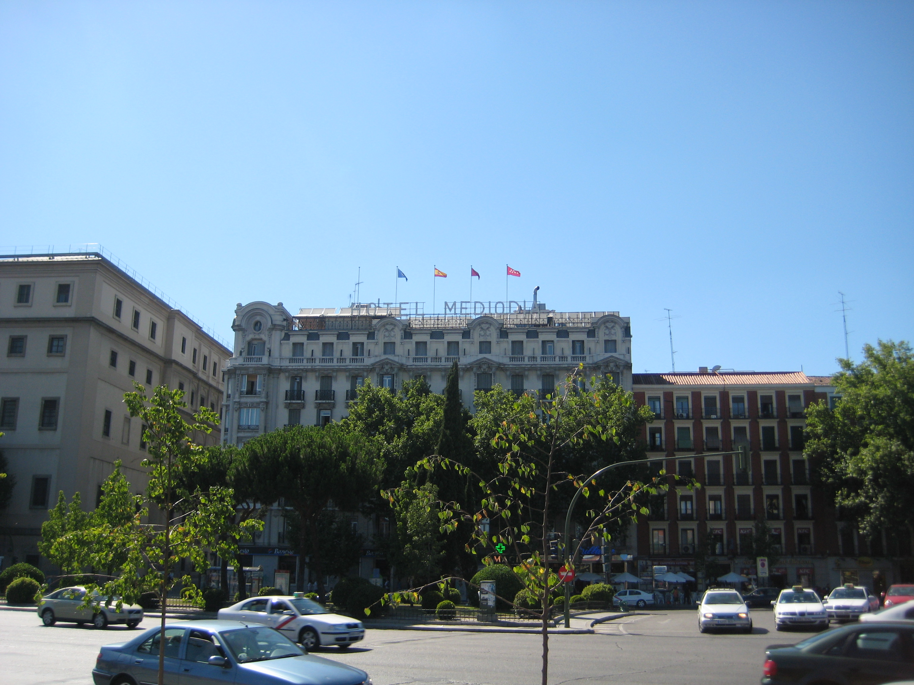 Plaza del Emperador Carlos V (square) in Madrid (Spain). In the background, Hotel Mediodía.